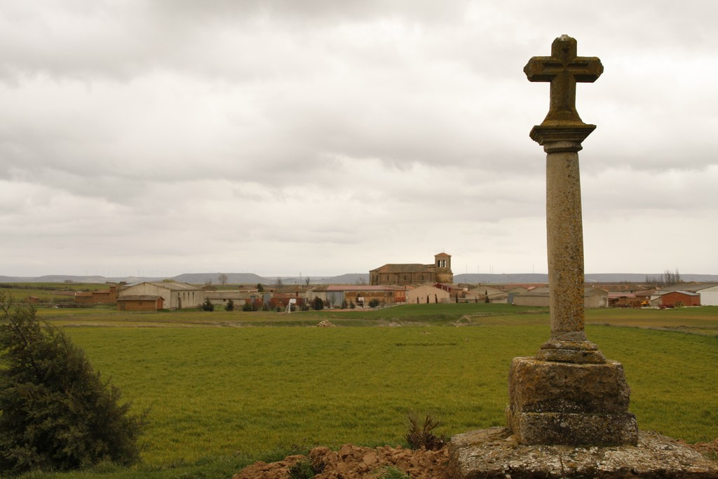 View of Padilla de Abajo, 2010